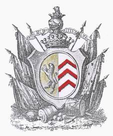 escudo de armas de los Condes de Clonard